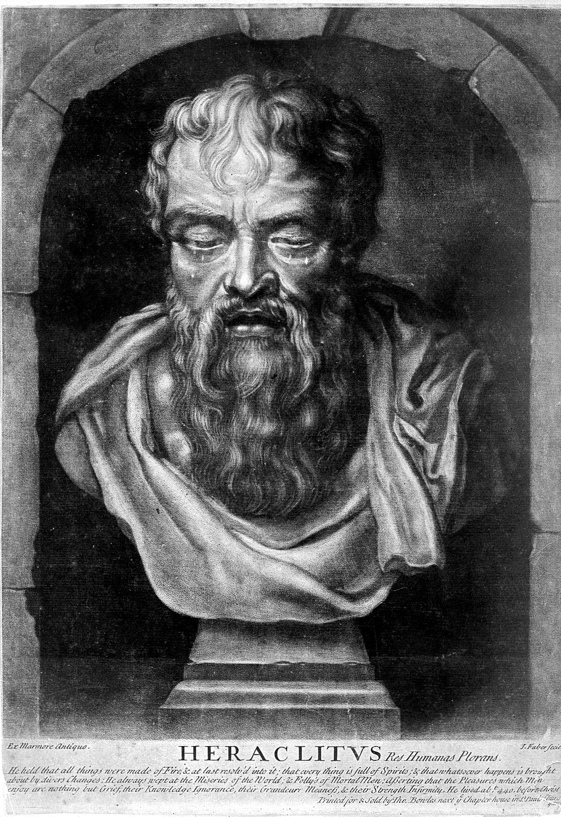 Heraclitus of Ephesius, Ionian philosopher, at Ephesus. Iconographic Collections Keywords: Heraclitus; J. Faber; Peter Paul Rubens